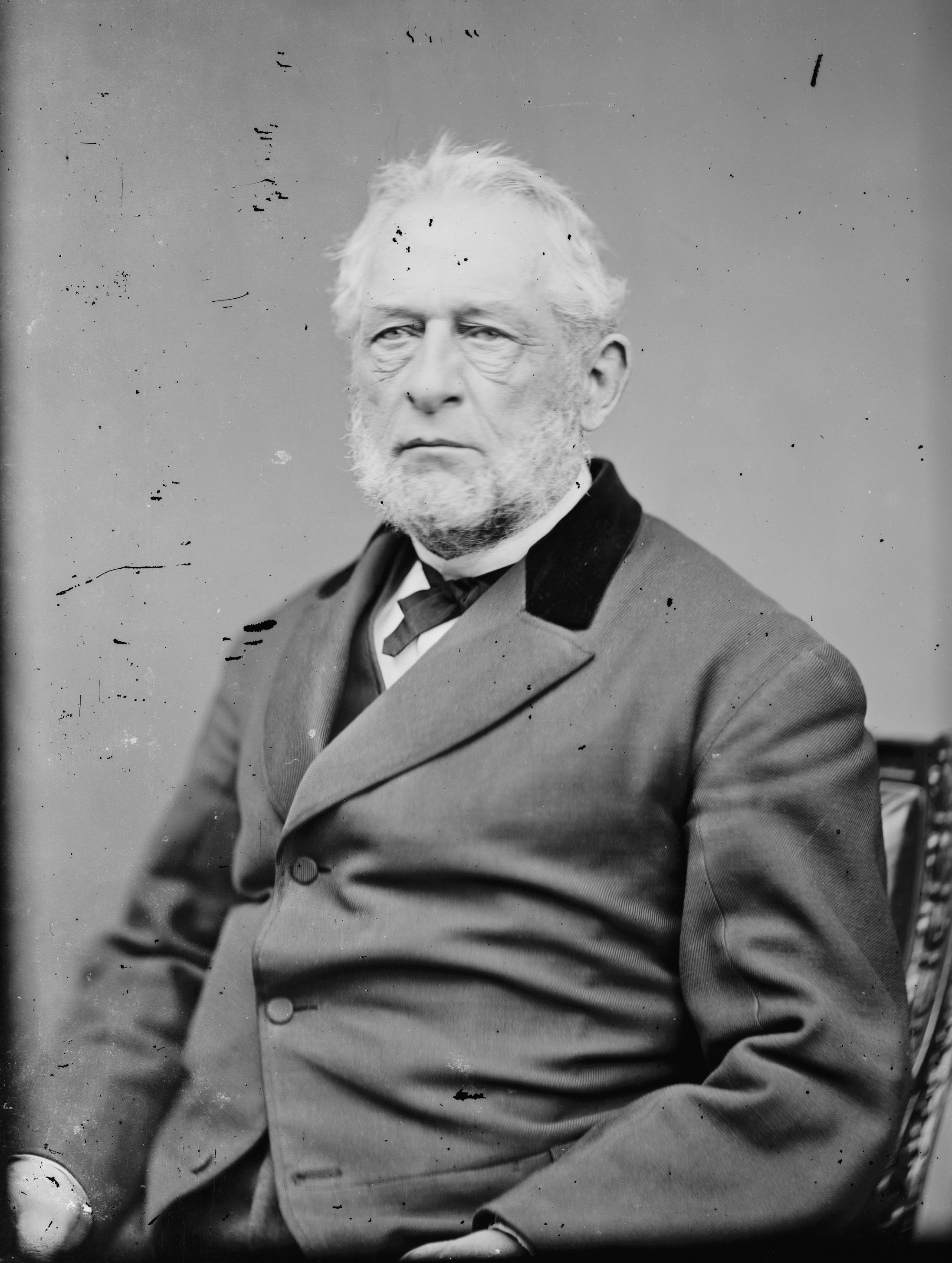 Philip S. Crooke. Library of Congress description: "Crooke, Hon. Philip Schuyler of N.Y. Commanded Fifth Brigade, National Guard in Pa. June & July 1863"